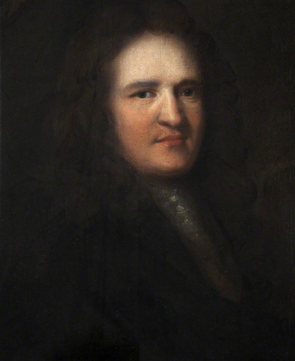 Dutch School; Louis Crommelin (1652-1727); Irish Linen Centre & Lisburn Museum